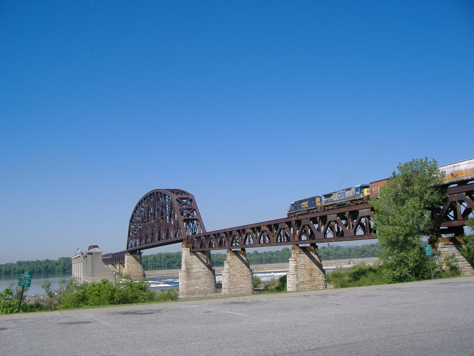 A picture of the Ohio Falls Bridge, better known as the Fourteenth Street Bridge, between Clarksville, Indiana and Louisville, Kentucky, taken from the George Rogers Clark homesite in Clarksville.